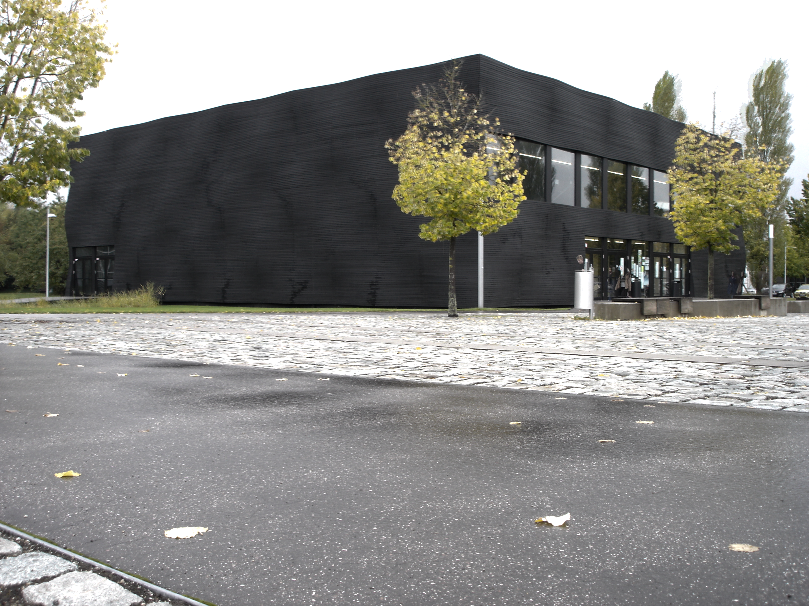 This is a building of the Technical University of Munich which contains some additional lecture halls.